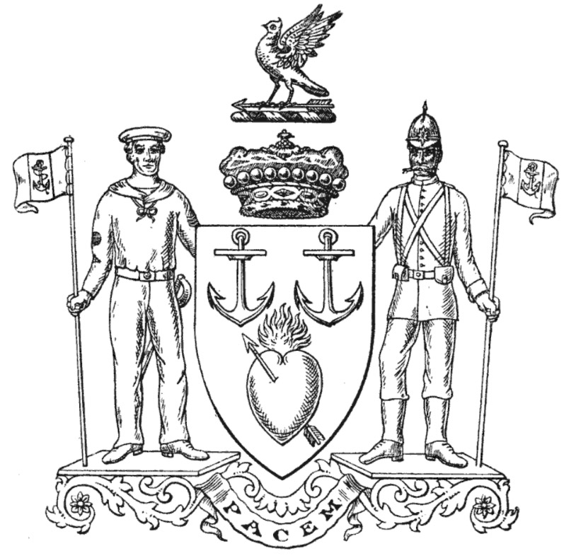 Heraldick achievement of Goschen family, Viscounts Goschen